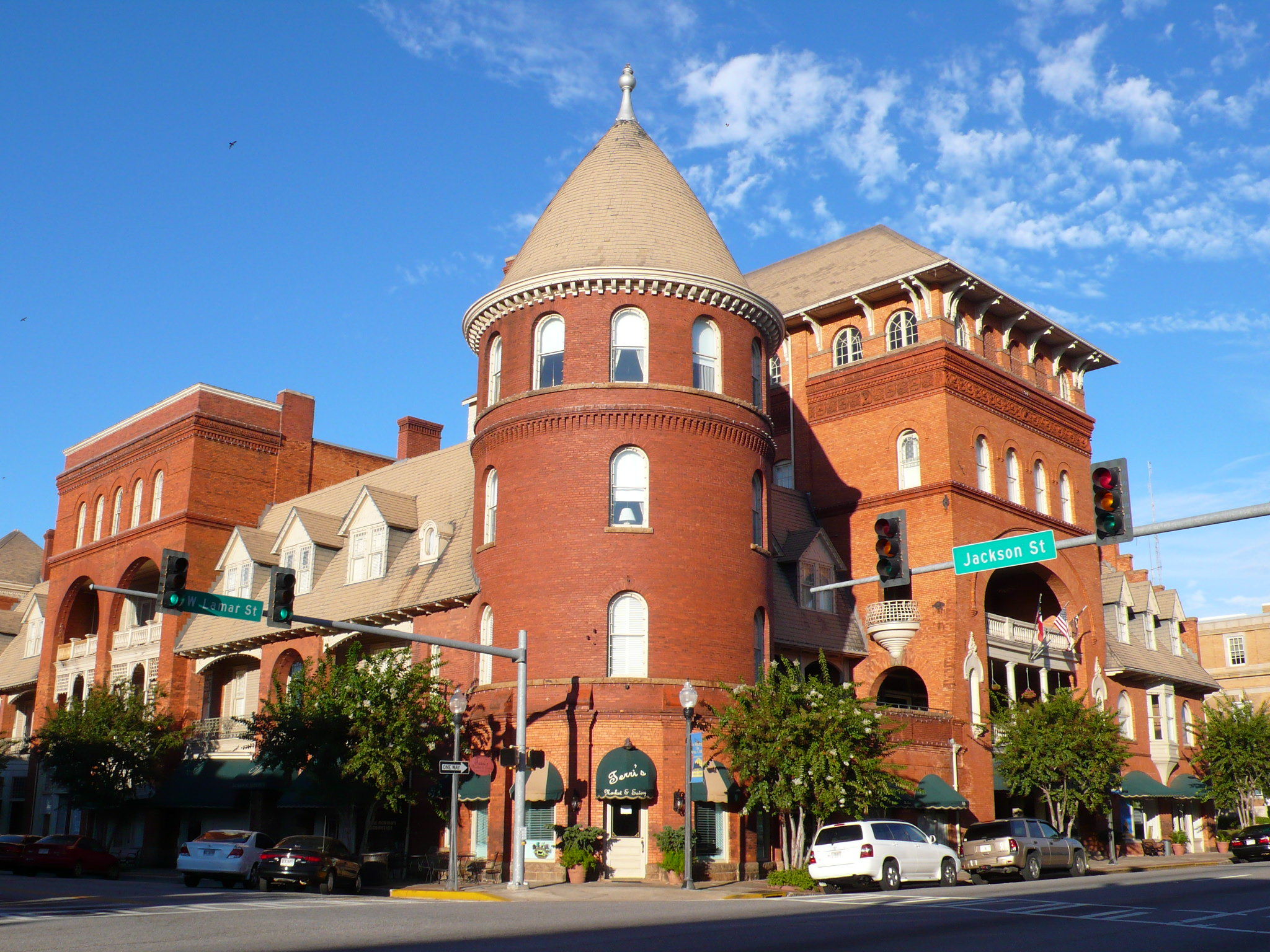 Windsor Hotel in Americus, Georgia. 32°4′20″N 84°14′1″W / 32.07222°N 84.23361°W